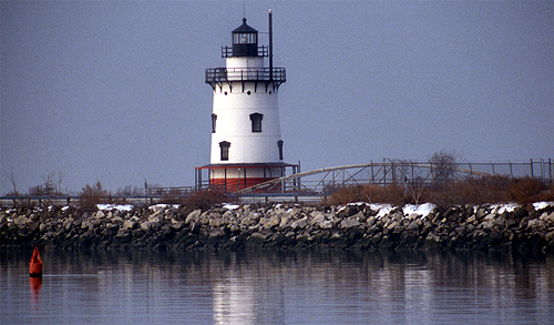 Tarrytown Lighthouse, Tarrytown, NY Hudson River